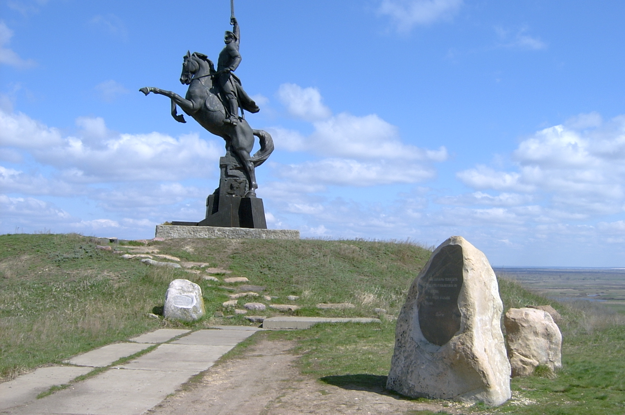 Monument to Don Cossack Khoperskaya District. Nature Park Nizhnehopersk. Volgograd Region.